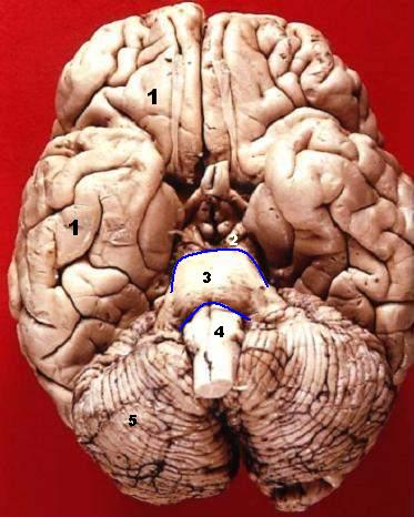 Human brain - anterior-inferior view The three divisions of the brainstem are seen here in this anterior- inferior view. Cerebrum Mesencephalon - Midbrain Pons Medulla oblongata Cerebellum (font: arial black, size: 10 and 14)